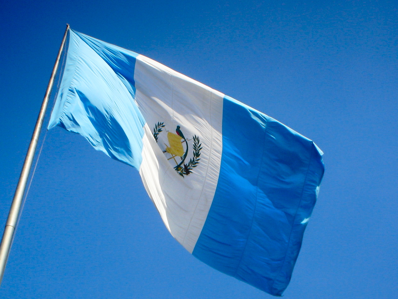 Guatemalan flag